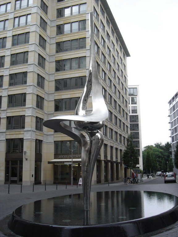 Escultura prop del Sony Center - Sculpture near the Sony Center Phoenix (2003) by Gidon Graetz